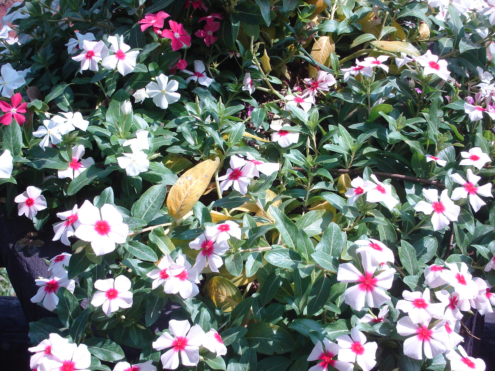 Catharanthus roseus in Royal Flora Expo 2006, Chiangmai, Thailand